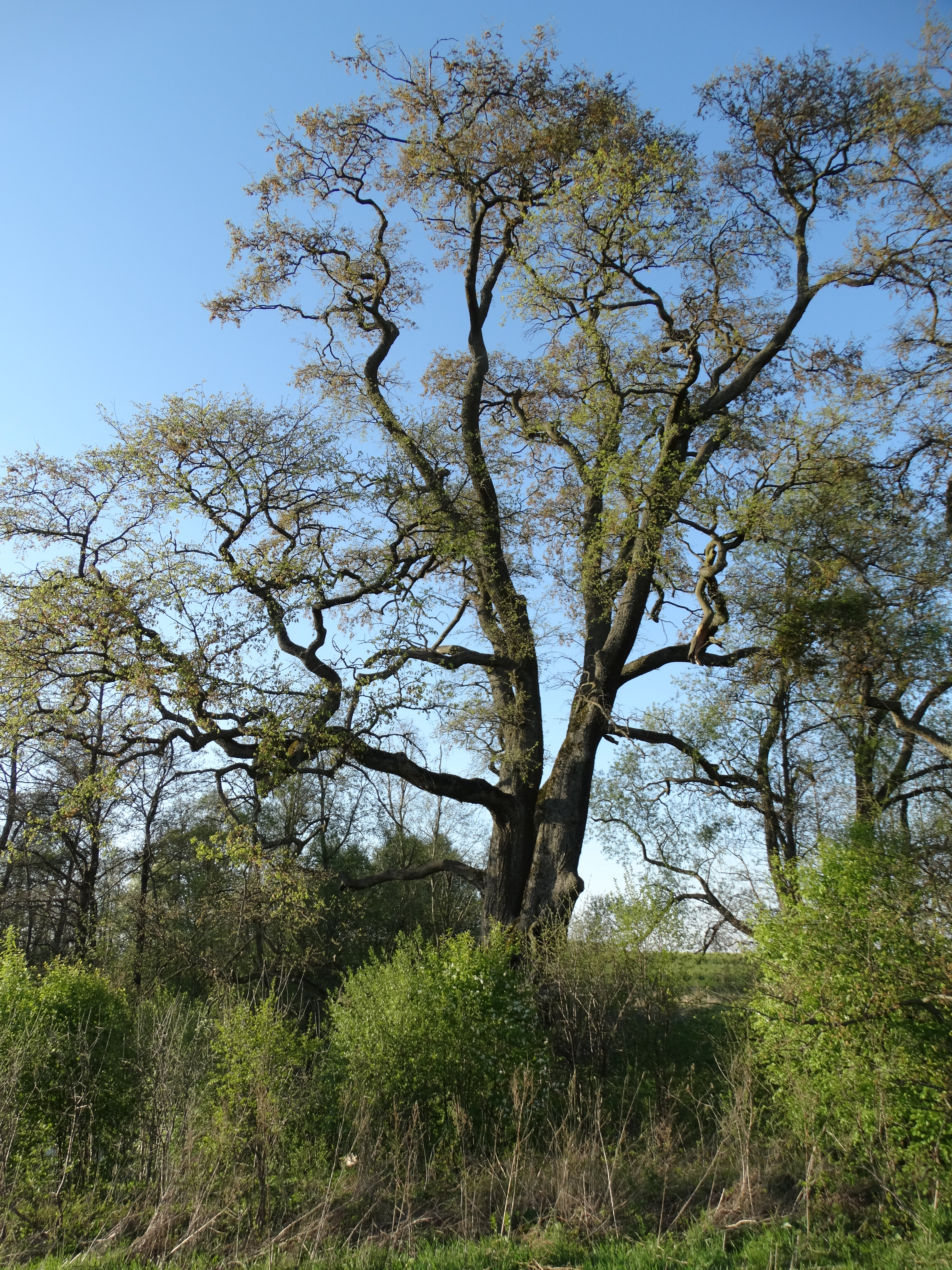 European White Elm by Nykis River, Kėdainiai District, Lithuania